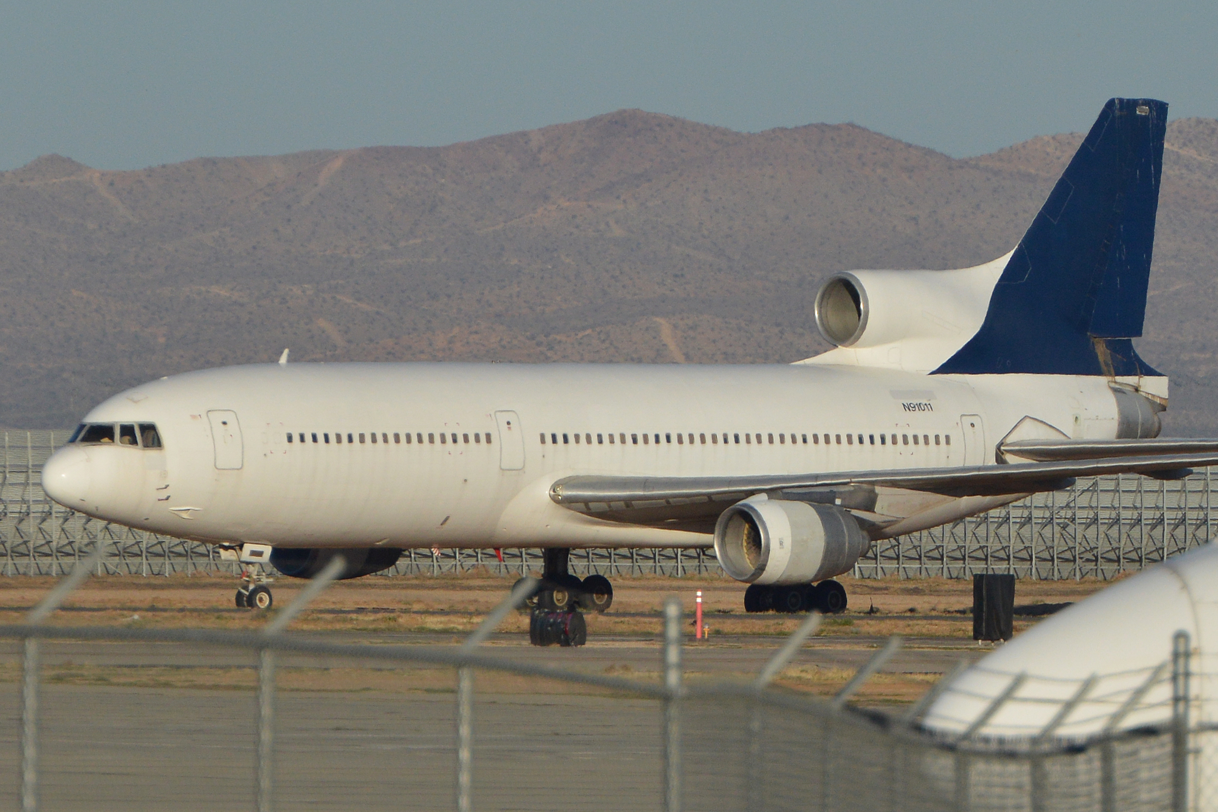 c/n 1241. Built 1983 for TAP as CS-TEC as flew with them (including leases to TAAG Angola) until 1994, when it joined Novair as SE-DVF. In 2000 it became CS-TMR and operated with different charter operators until retired retired in September 2007. Southern California Logistics Airport. Victorville, CA, USA. 29-2-2016